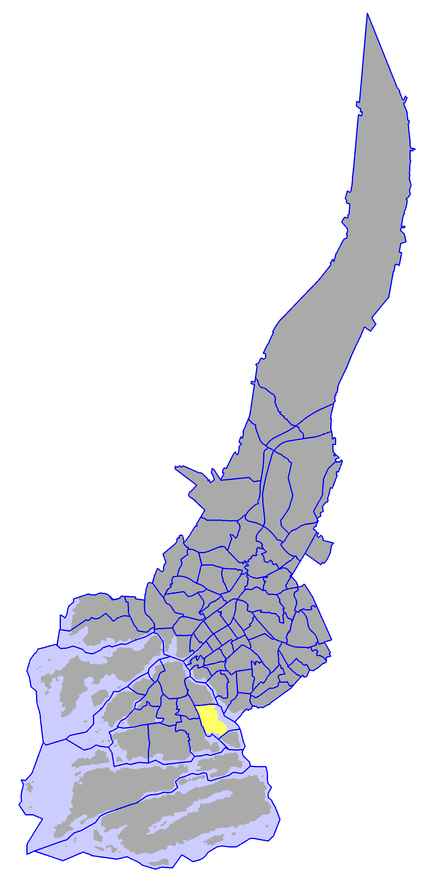 District of Kaistarniemi, in Turku